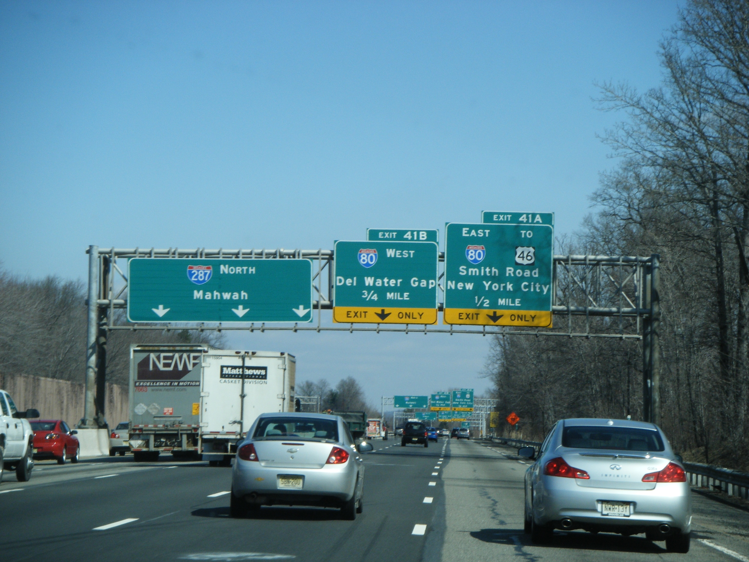 Northbound Interstate 287 1/2 mile from the interchange with Interstate 80 (exit 41) in Parsippany-Troy Hills, New Jersey